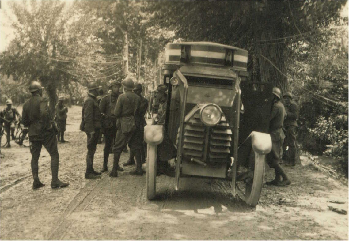 World War 1 - Italian Army: Battle of Vittorio Veneto - Italian Ansaldo-Lancia 1Z armored car